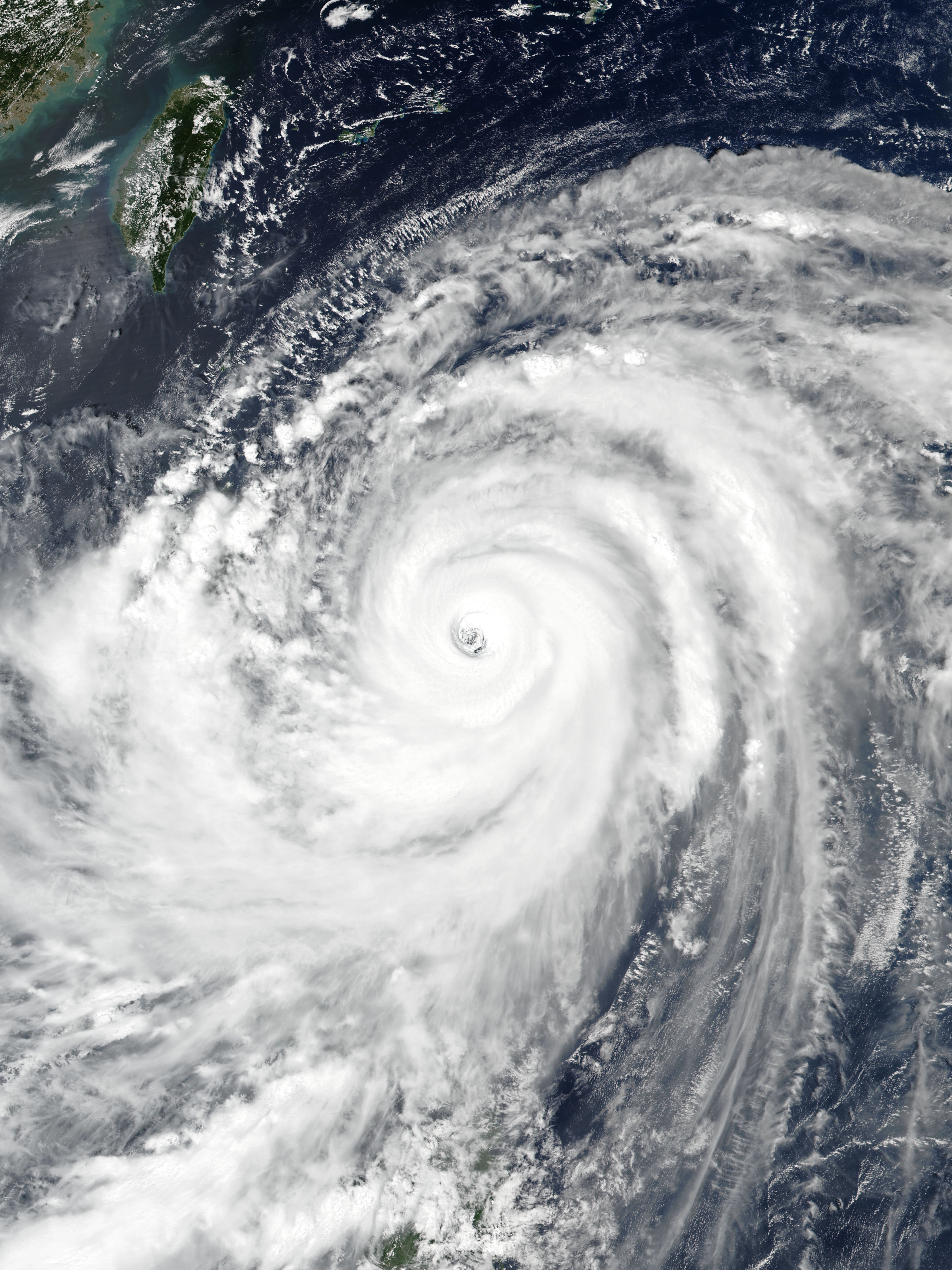 Typhoon Mangkhut approaching Luzon at peak intensity on September 14, 2018.